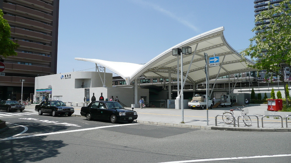 JR Kobe Line (Sanyo Main Line),Takatori Station. /JR神戸線（山陽本線）鷹取駅